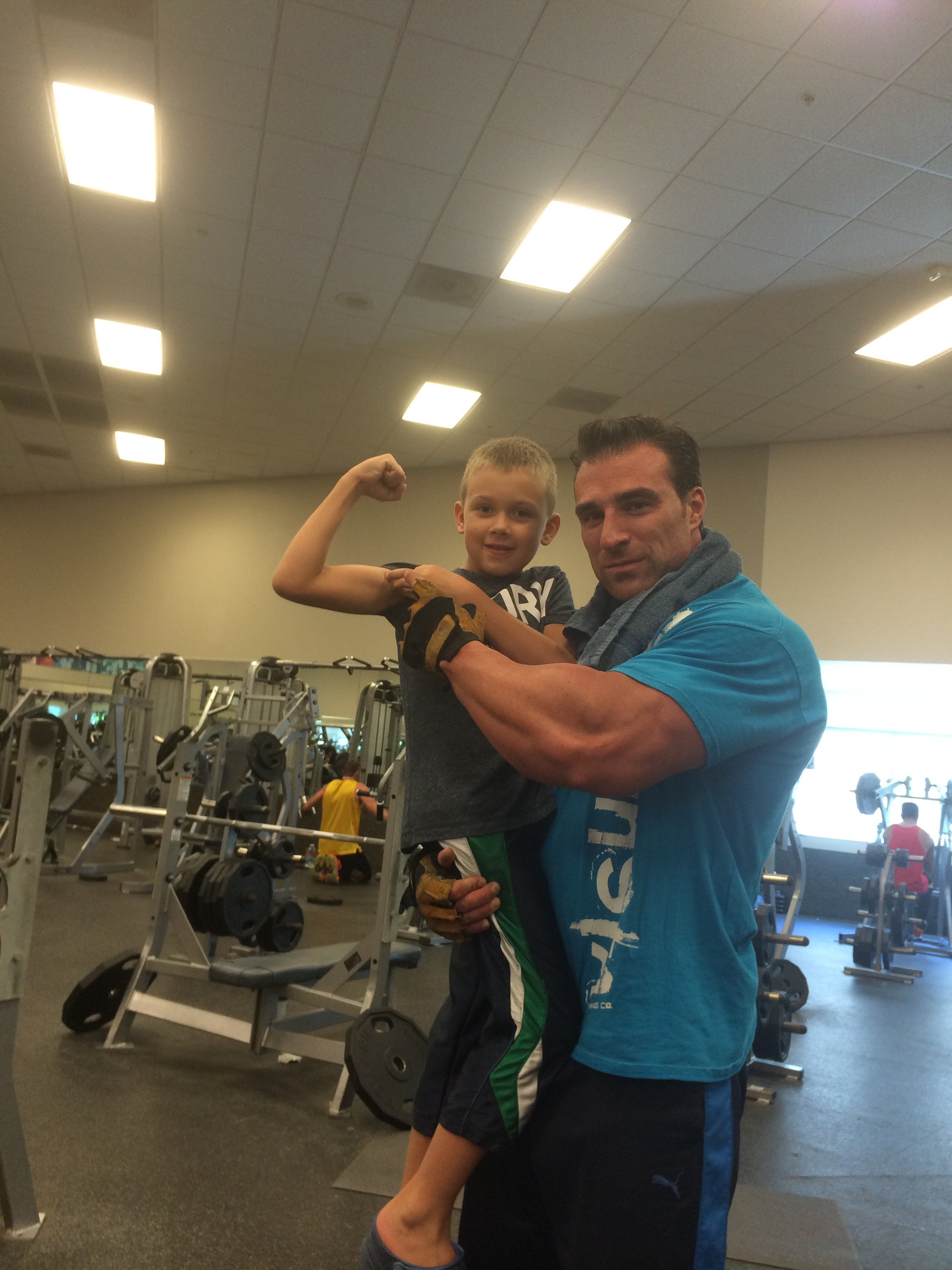 Mr. California 2014 [1] and a seven years old kid at power training in a gym, Hollywood